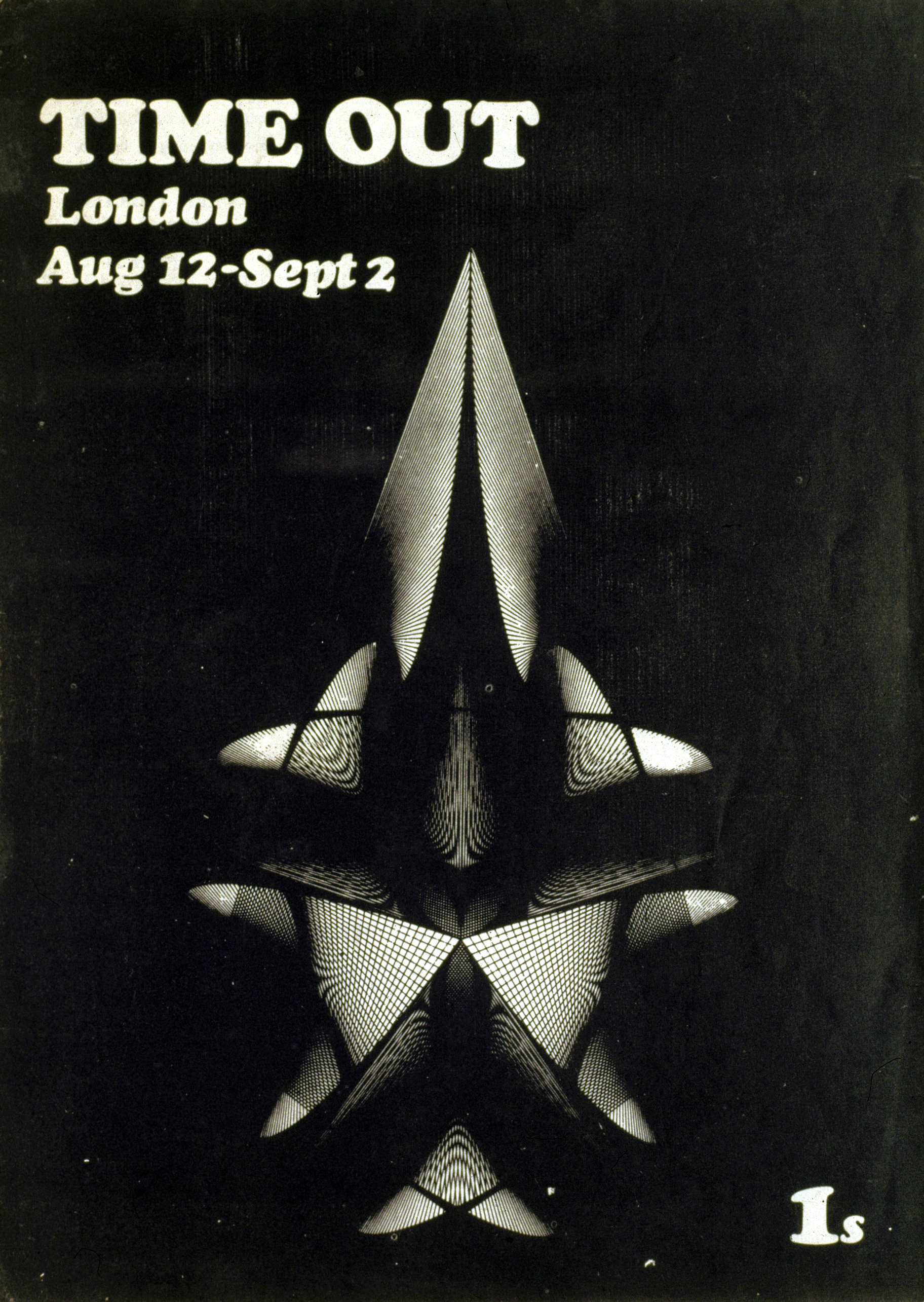 Time Out London Magazine cover